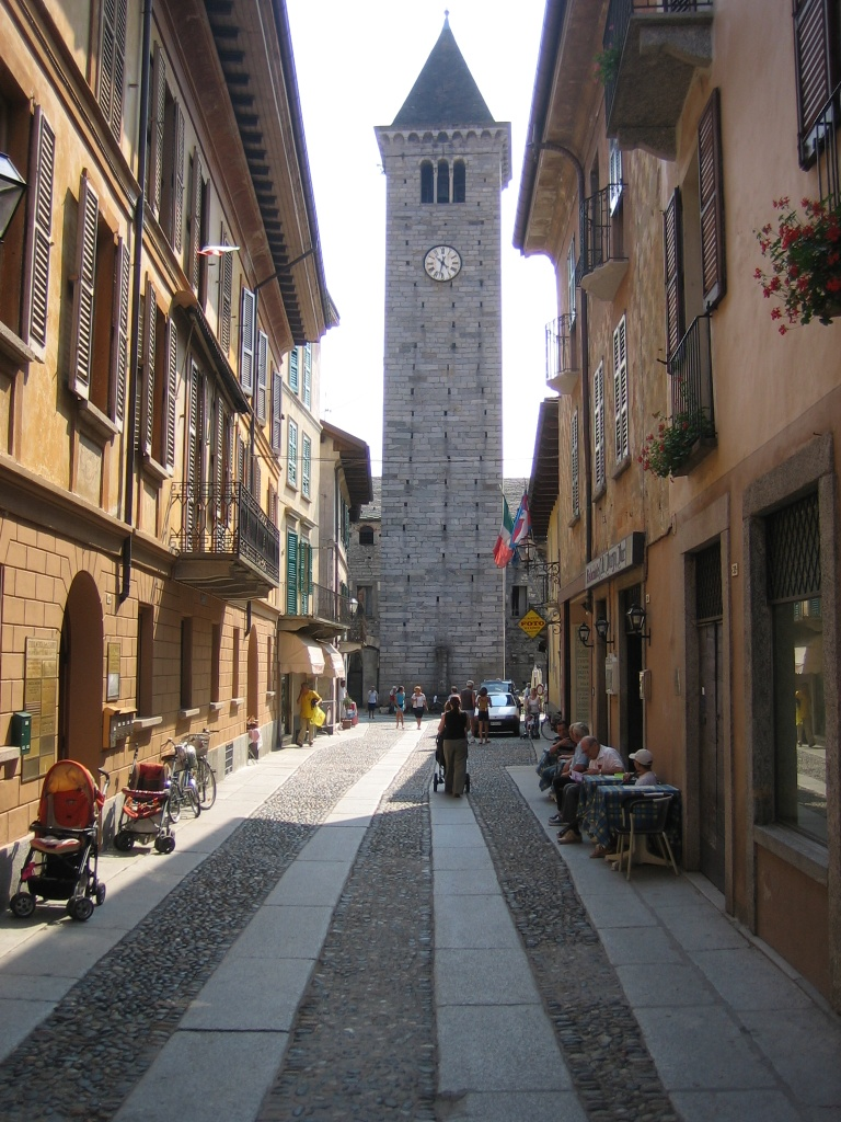 Via Antonio Giovanola, Cannobio's main street. The church tower of San Vittore church.